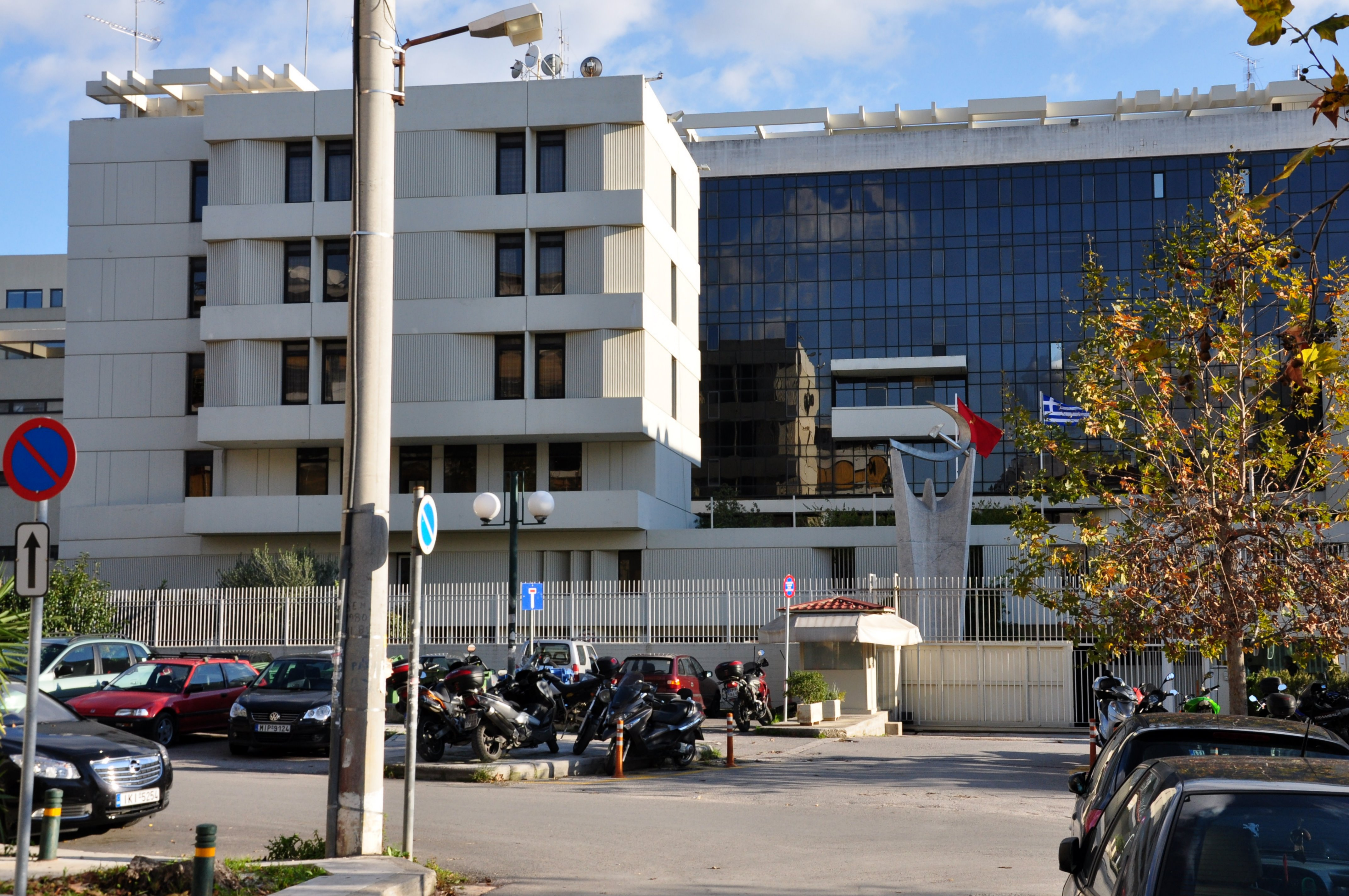 Greece, the head offce of the KKE Grecja, Ateny, dzielnica Perissos, budynek KKE (Komunistycznej Partii Grecji). Czy nawet tylko jego część - mniej więcej połowa.